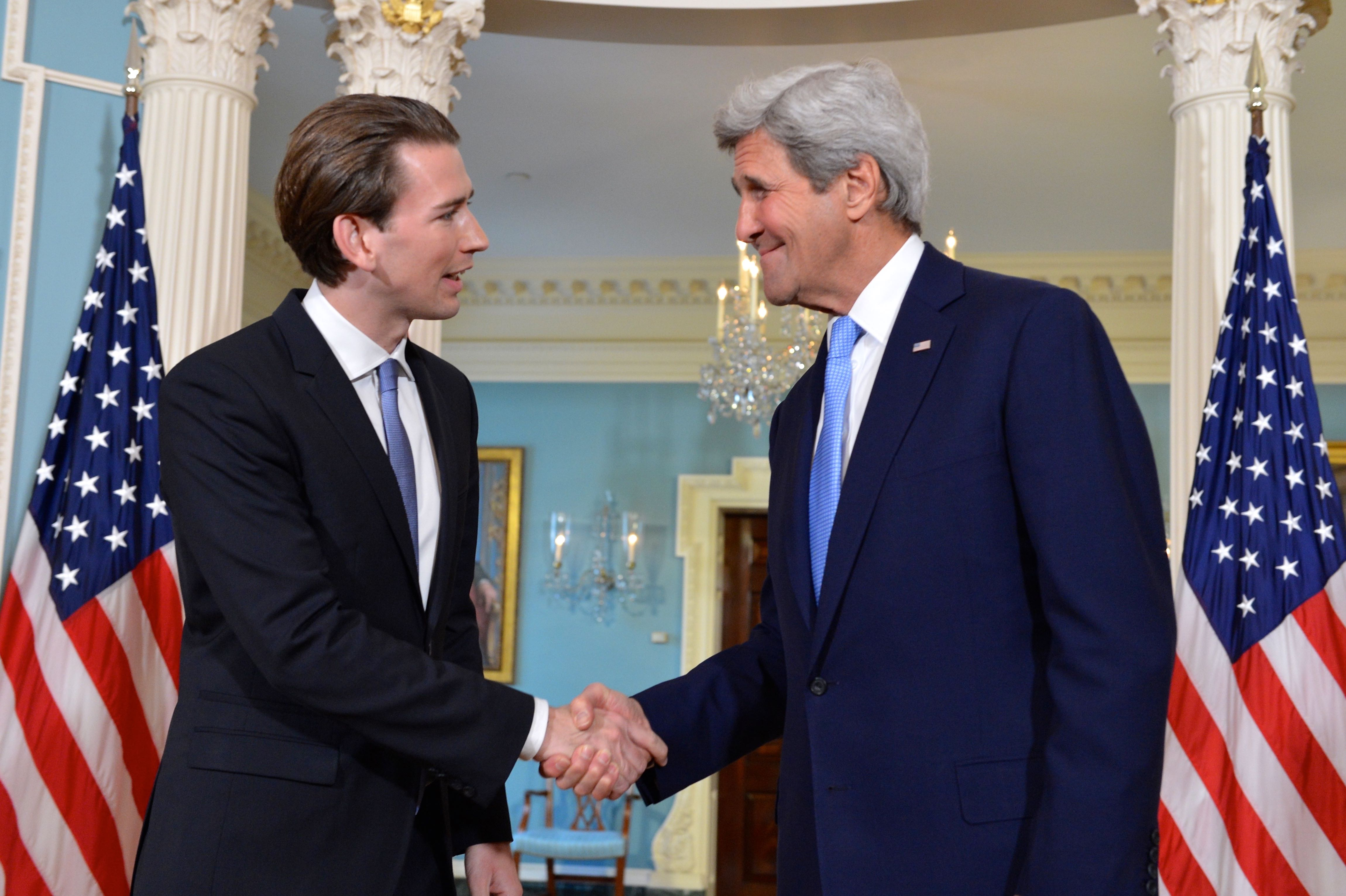 U.S. Secretary of State John Kerry shakes hands with Austrian Foreign Minister Sebastian Kurz after the counterparts addressed reporters at the U.S. Department of State in Washington, D.C., on April 4, 2016. [State Department Photo/Public Domain]